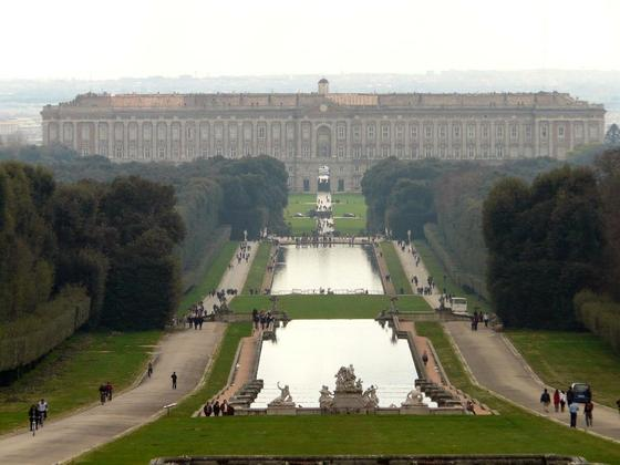 Gardens of the Royal Palace of Caserta